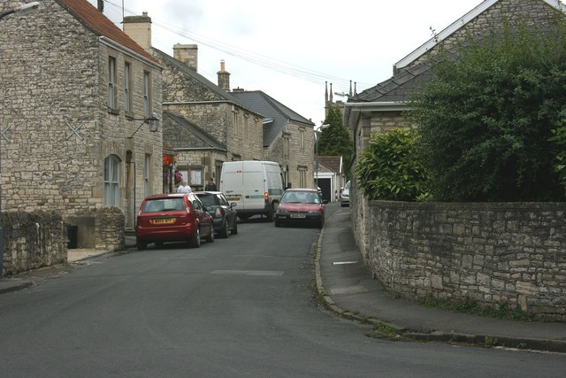 High Street, Timsbury